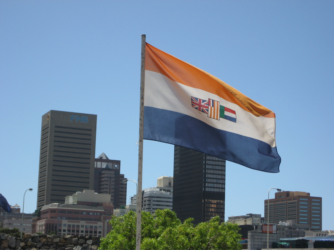 Flags on the Castle of Good Hope The 1928-1994 South African flag flying at the Castle of Good Hope in Cape Town